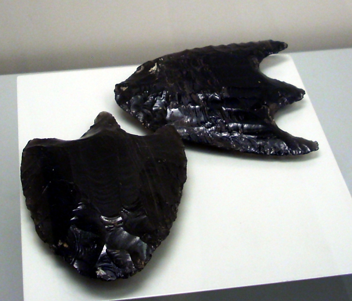 Late Classic obsidian spearheads from the Maya city of Palenque, Mexico, where they were interred as a dedicatory offering. Now in the Museum of the Americas in Madrid. Item nos 9221 and 9851.